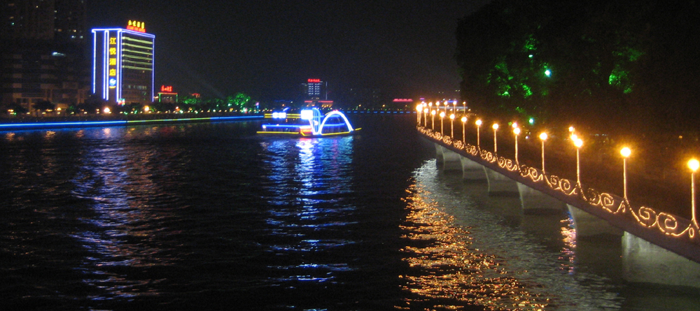 Pearl River Night Cruise at Bai-e-tan.